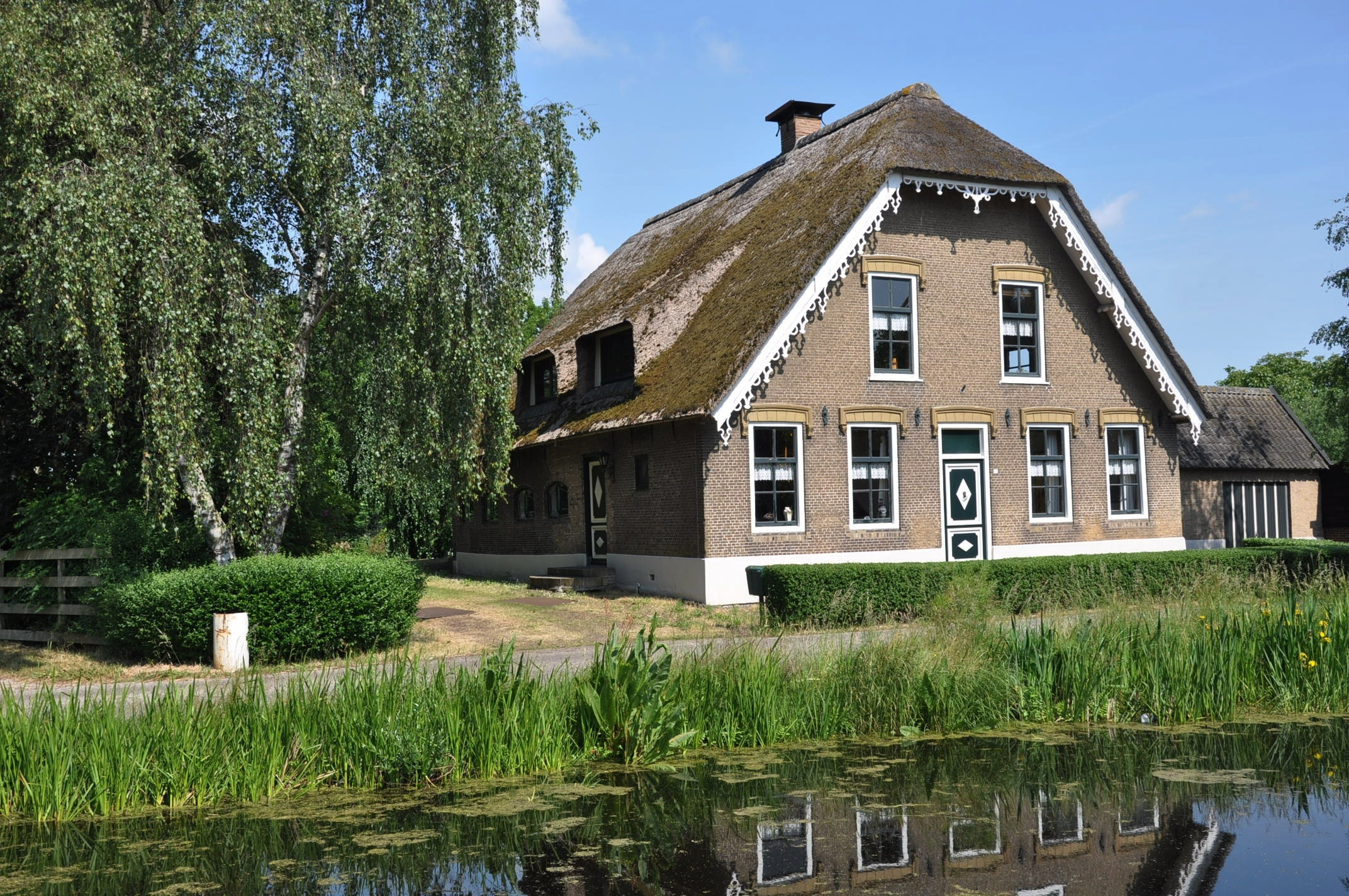 Farm in the hamlet "Het Beijersche", near Stolwijk (municipality Vlist, province South Holland, Netherlands).